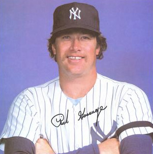 Professional baseball player Goose Gossage during the 1981 season as a member of the New York Yankees.